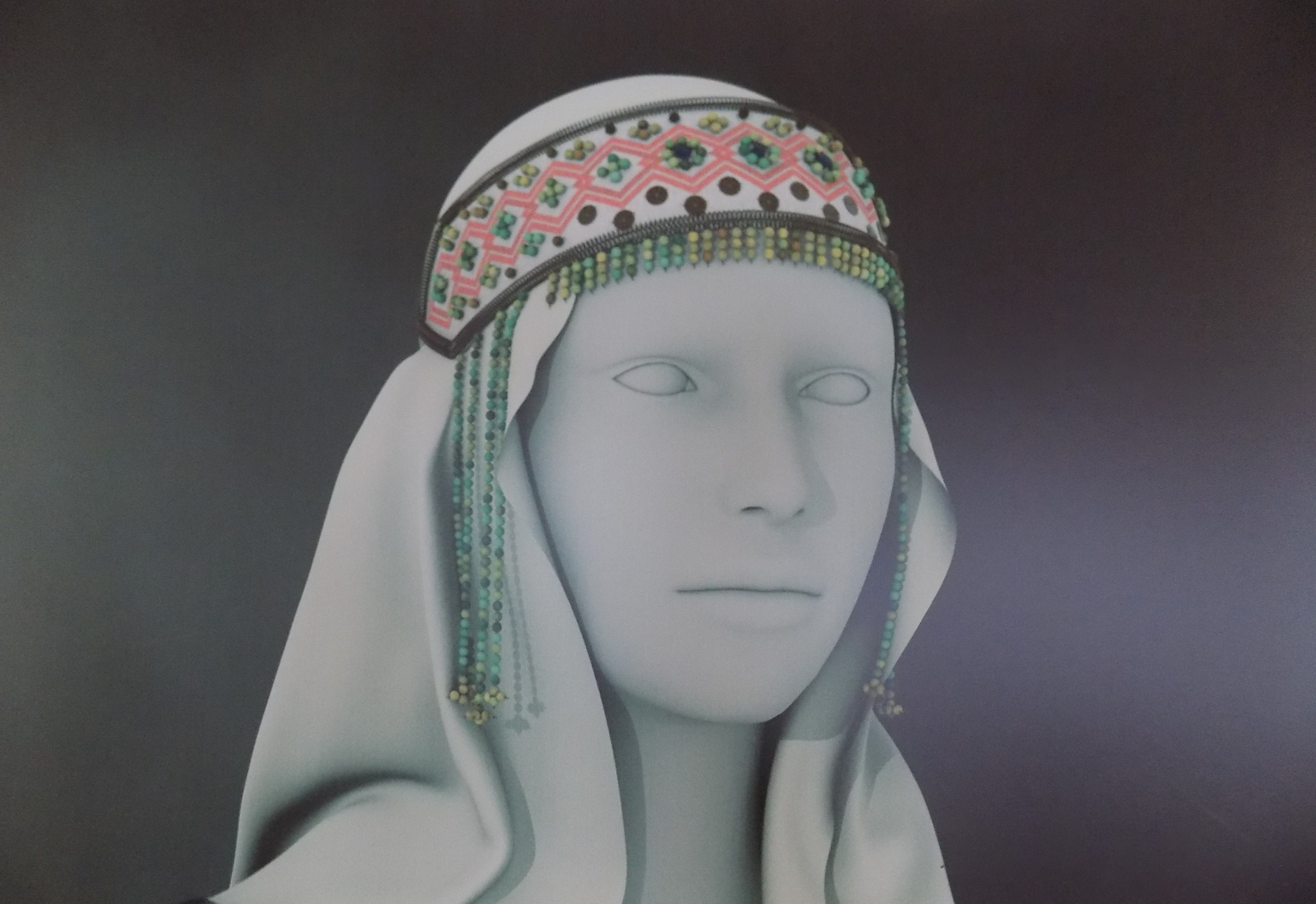 Decoration for the forehead